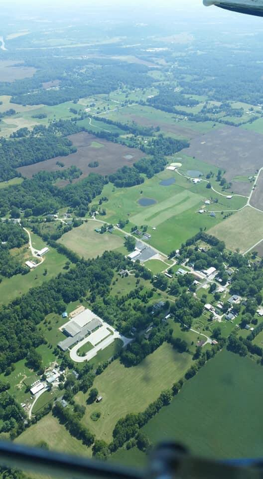 I took this photo while on a small flight around Lawrence County, Indiana, and I managed to capture some images of my hometown, Fayetteville, while on the flight, back in September 2018.